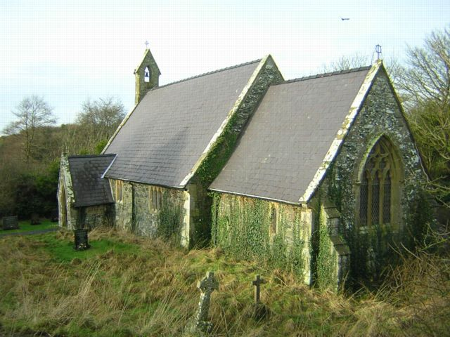 Eglwys St. Ceinwen, Cerrigceinwen. A view of St. Ceinwen's Church, Cerrigceinwen.